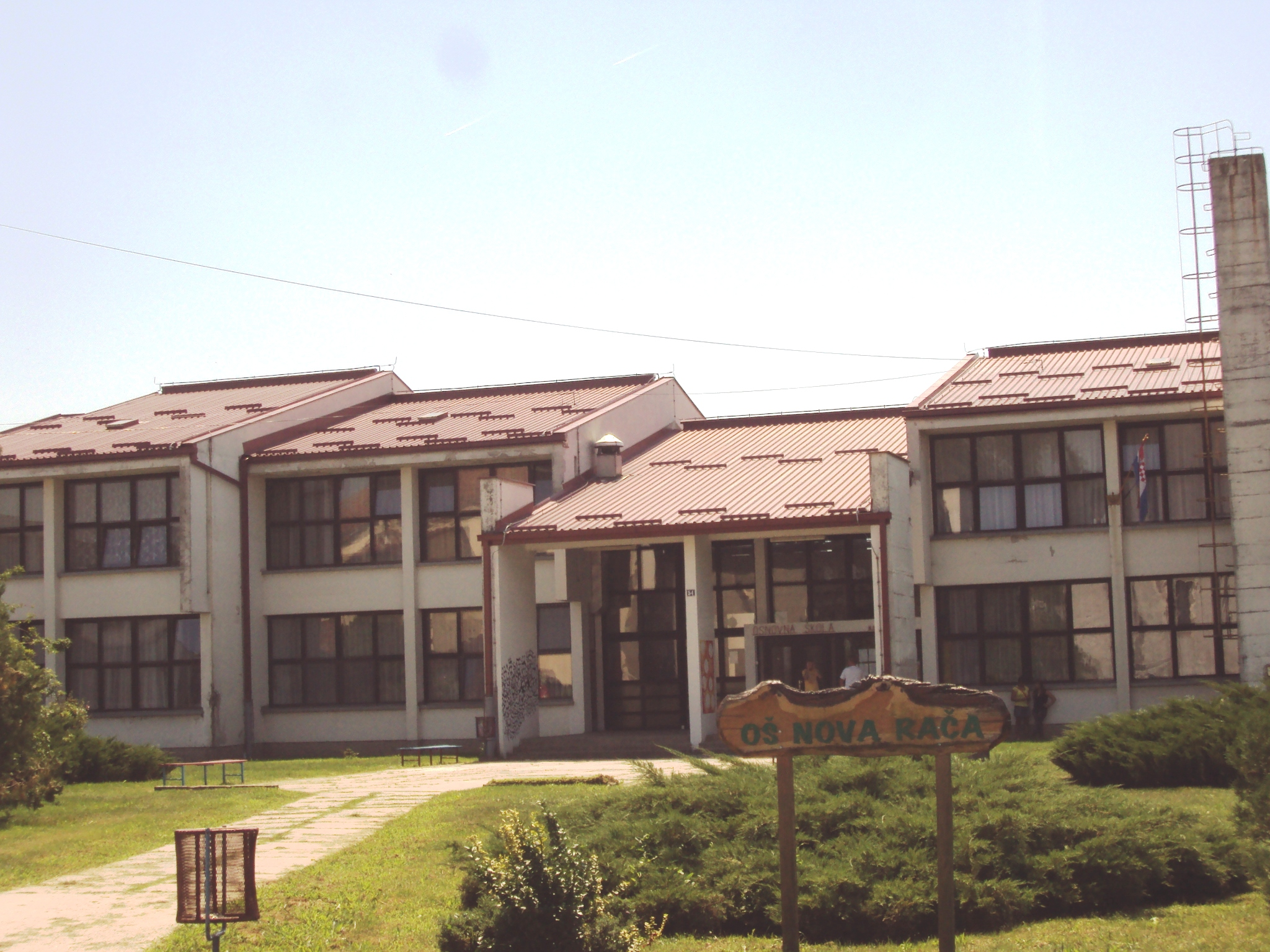 Primary school in Nova Rača, Croatia